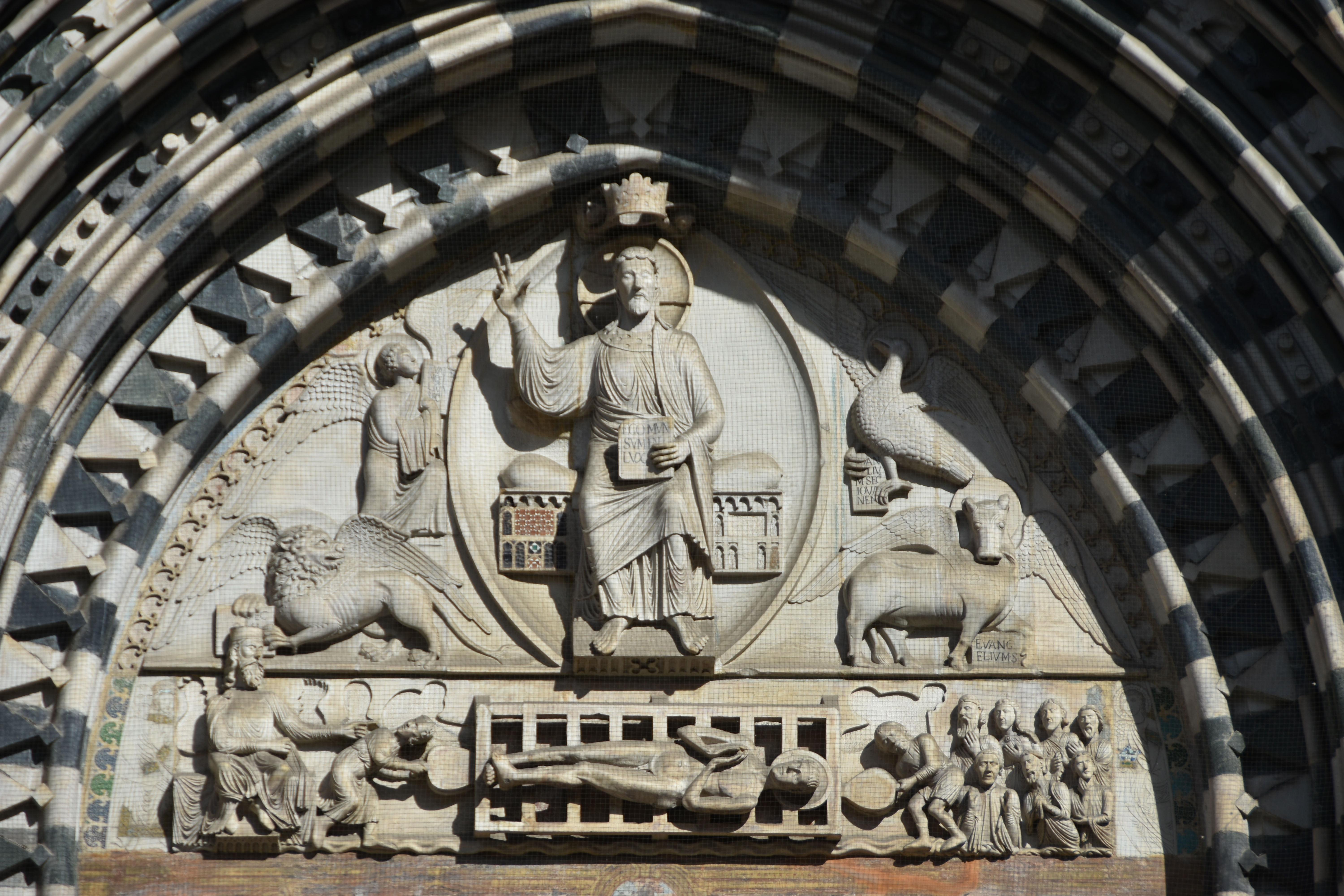 Genoa Cathedral Western facade Main Portal Tympanum Maiestas Domini St Laurent martyrdom